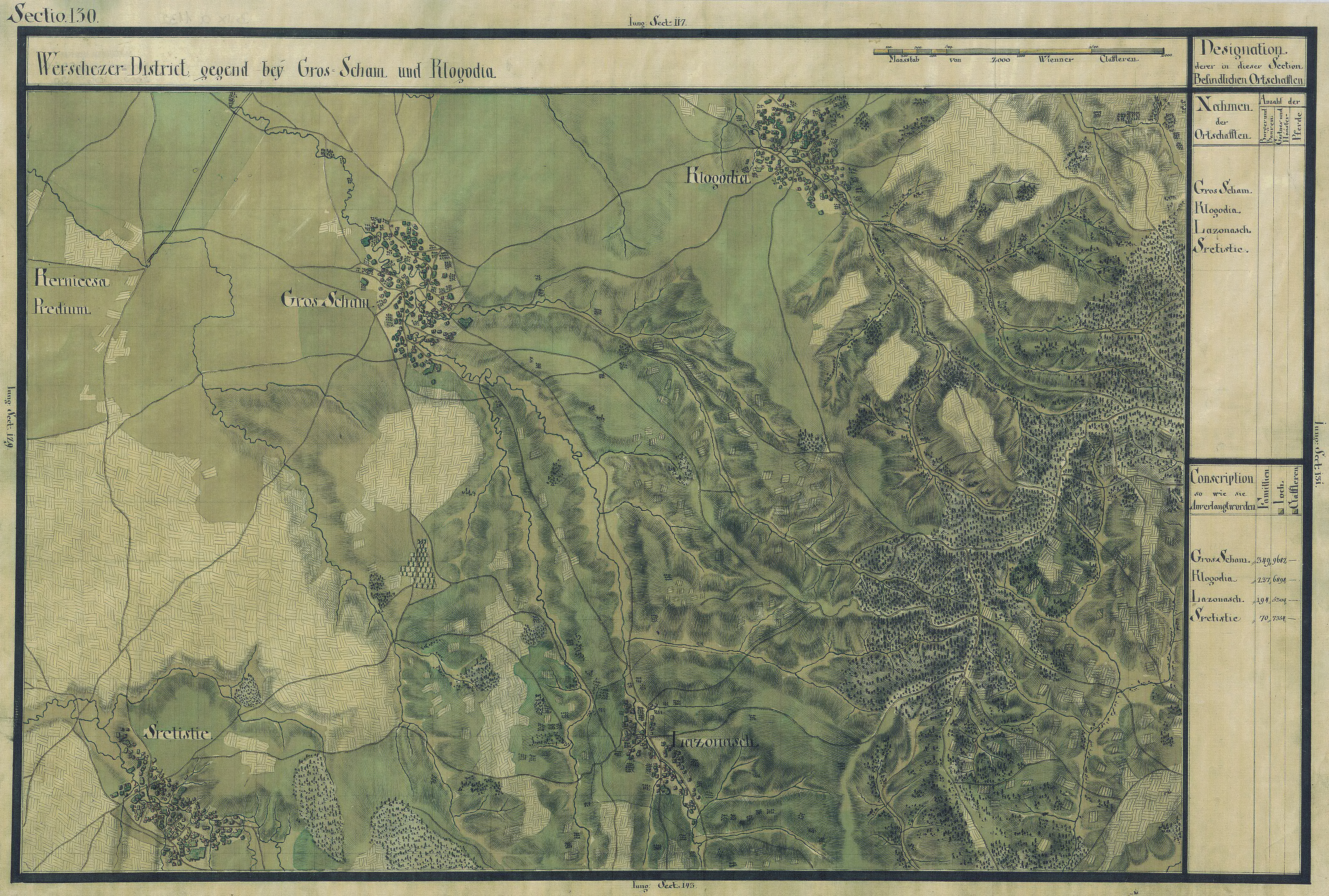 The Banat region in the cadastral maps: Josephinische Landesaufnahme, 1769-72. Josephinische Landaufnahme pg130